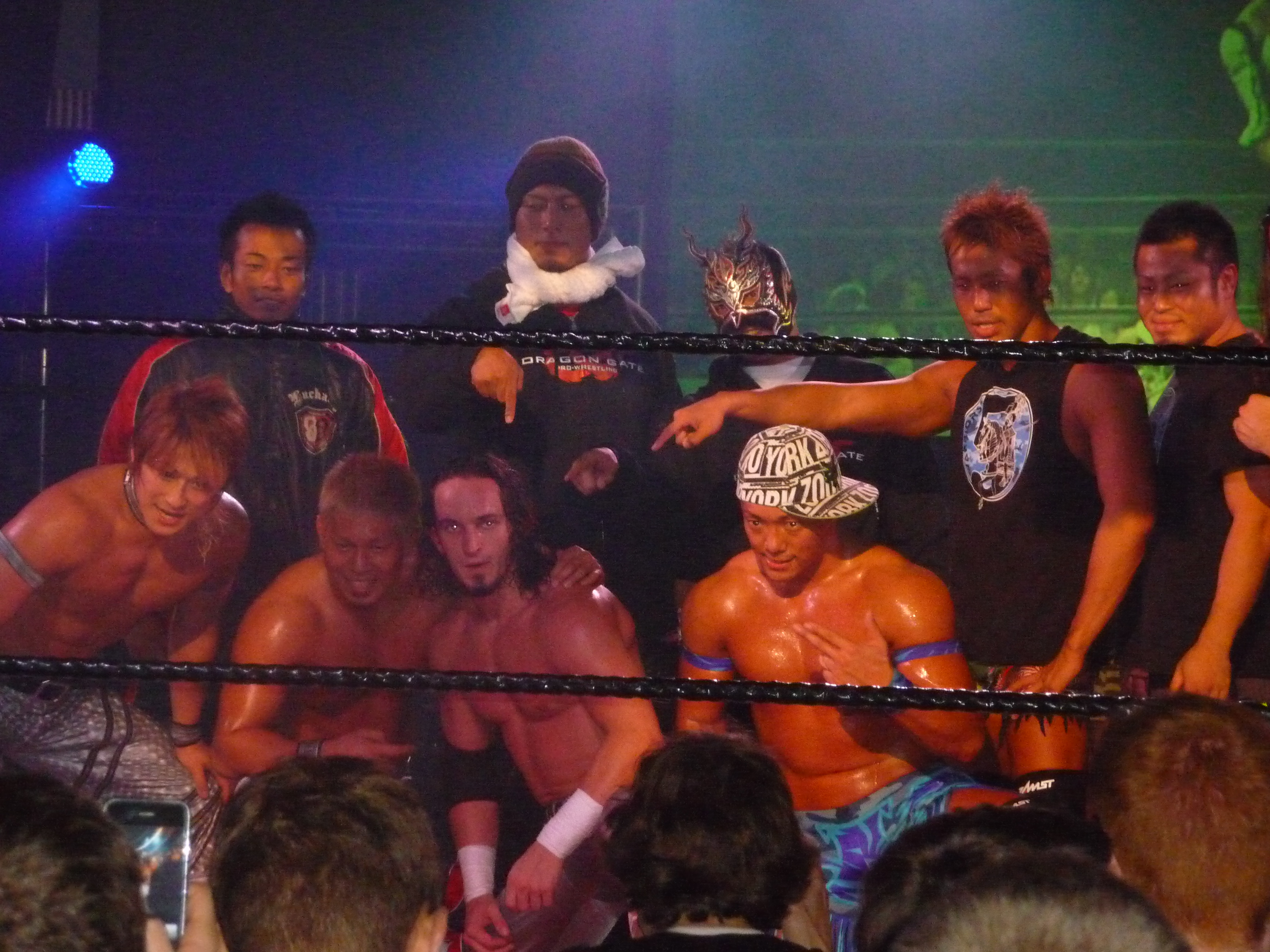 Dragon Gate wrestlers posing in the ring at the end of a Dragon Gate show in Oxford, England in November 2009. Included in the photo are (top row, left to right) Masato Yoshino, Shingo Takagi, Dragon Kid, Susumu Yokosuka, KAGETORA, (bottom row, left to right) BxB Hulk, Naruki Doi, PAC and CIMA. Photo taken in November 2009 in Oxford, England.